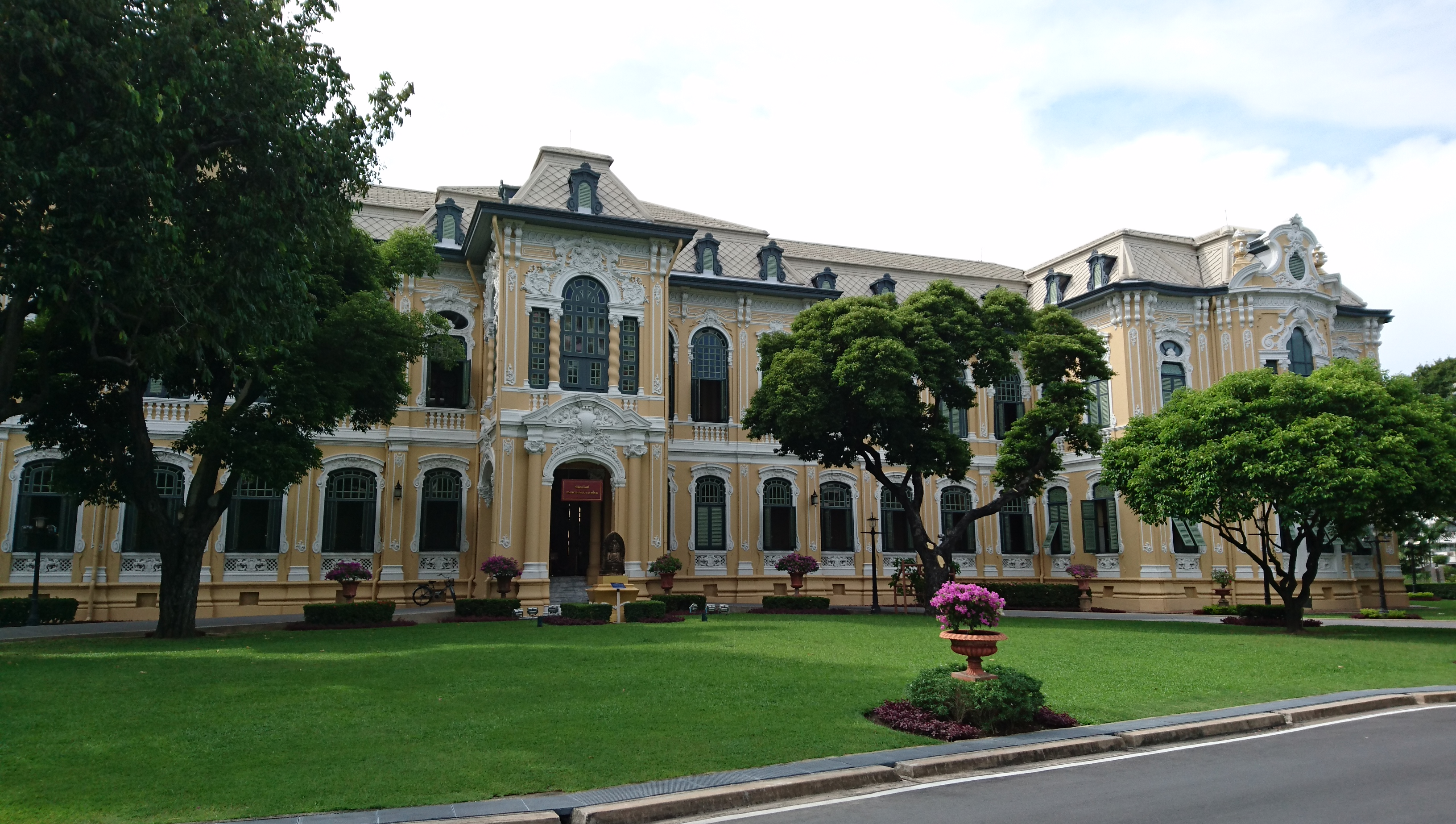 Front facade of the Main Residence building, Bang Khun Phrom Palace, Bangkok